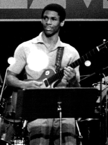 Guitarist Kevin Eubanks in Montreux Jazz Festival, Switzerland.